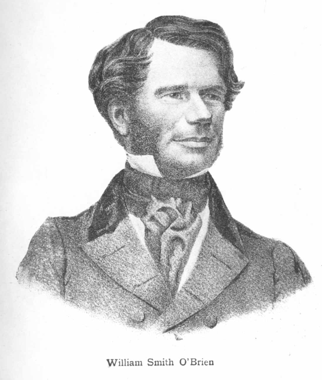 Contemporary portrait of William Smith O'Brien, Irish political activist and politician.